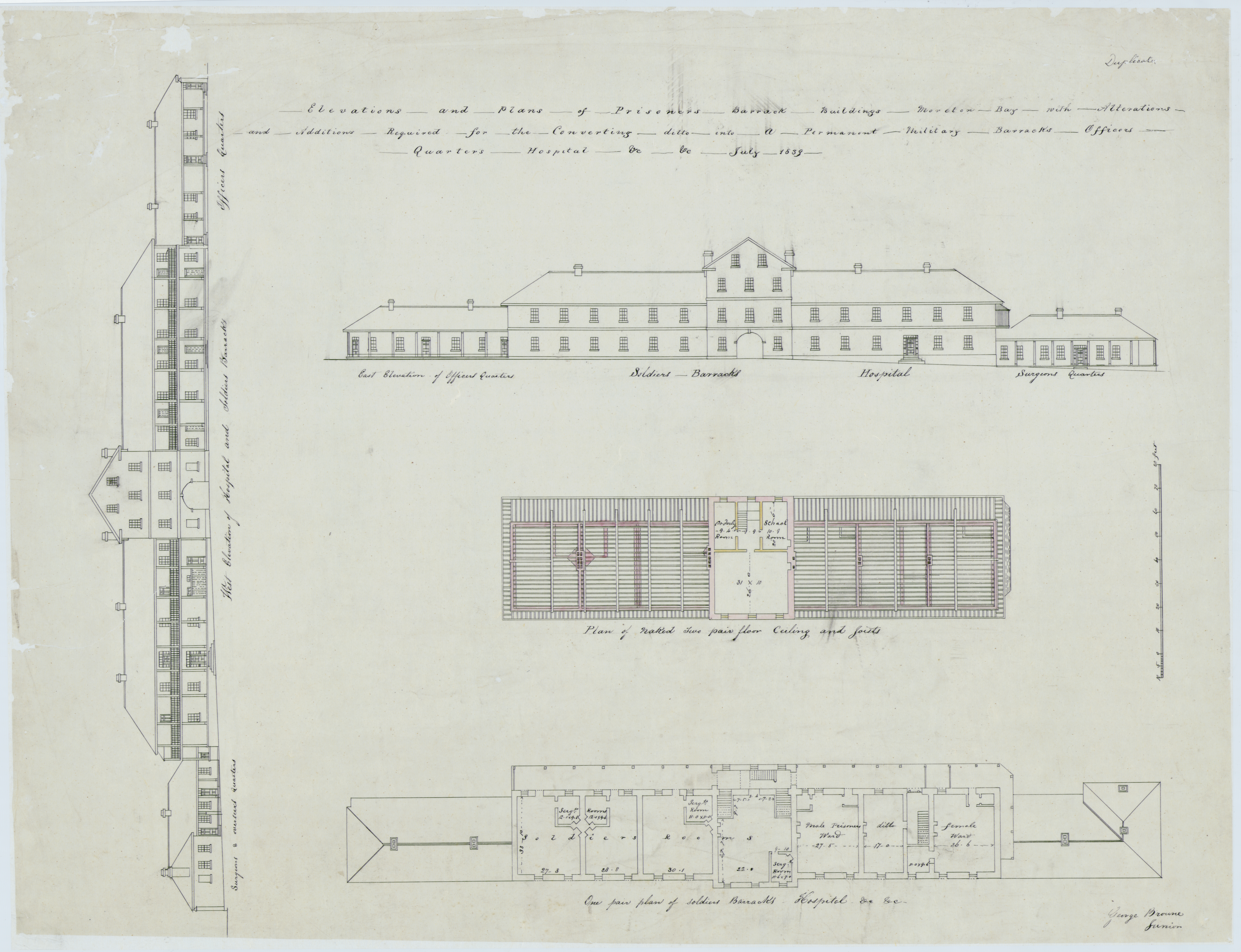 Prisoners' Barrack buildings, Moreton Bay, July 1839